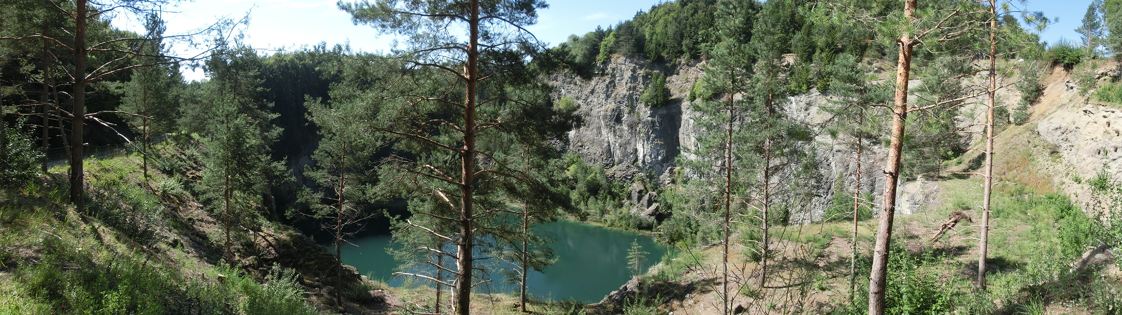 Germany (D) - Baden-Württemberg (BW) - district Tuttlingen (TUT) - municipality Immendingen: panorama view of "Höwenegg"